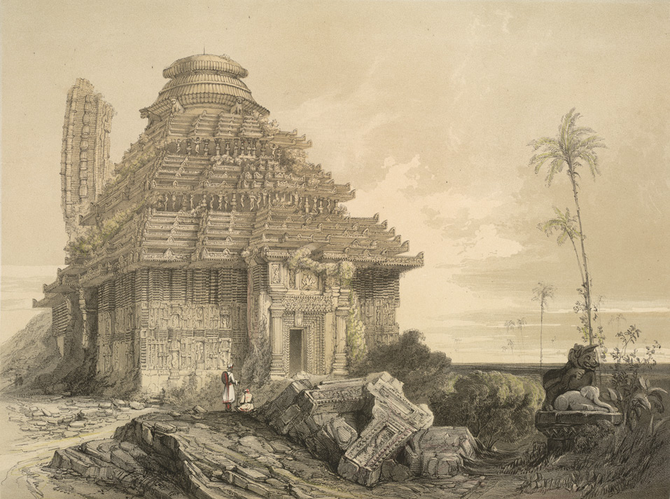 "Temple of Kanarug," by James Fergusson, 1847* (BL)